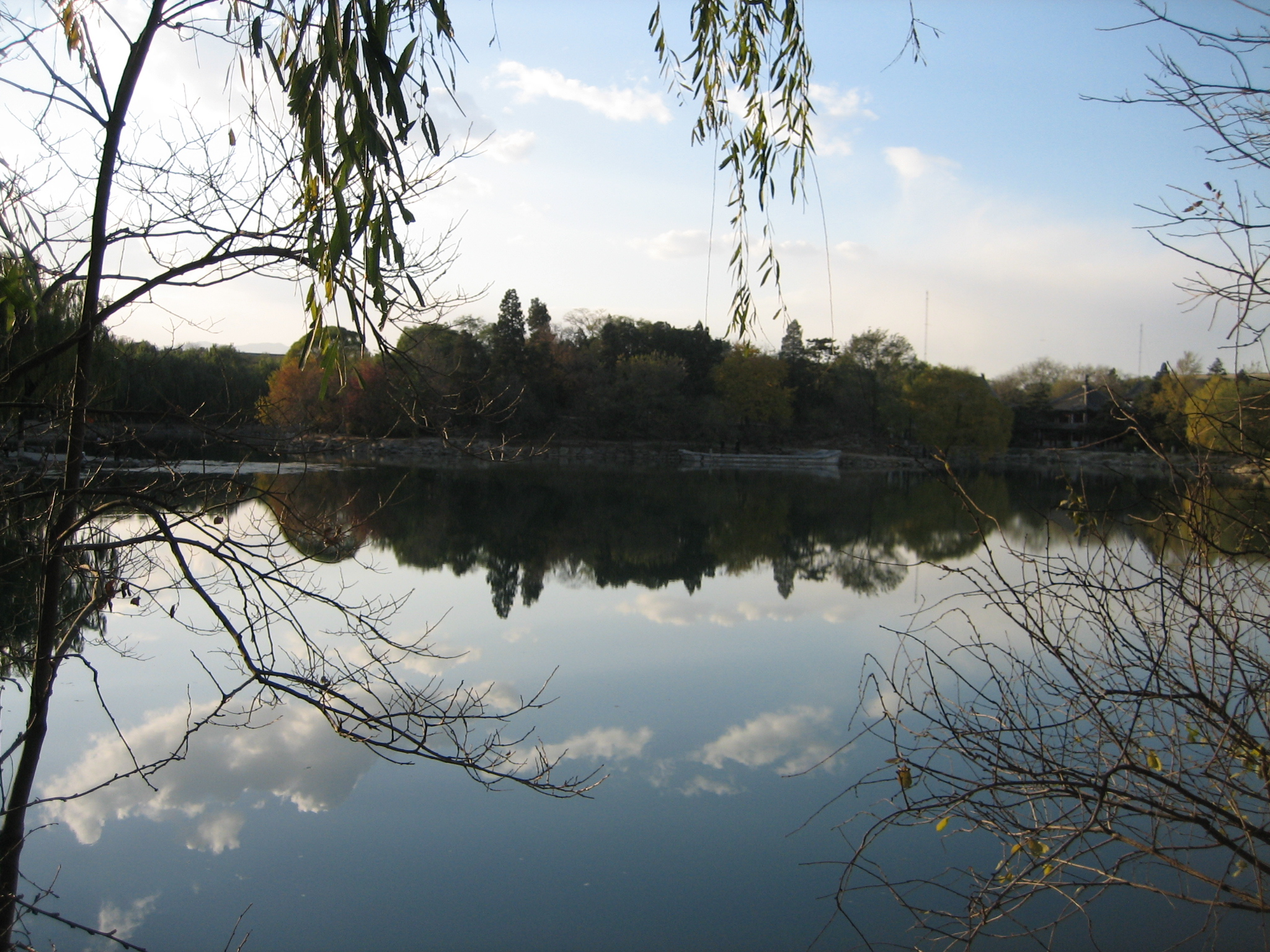 Weiming Lake, Peking University, Beijing